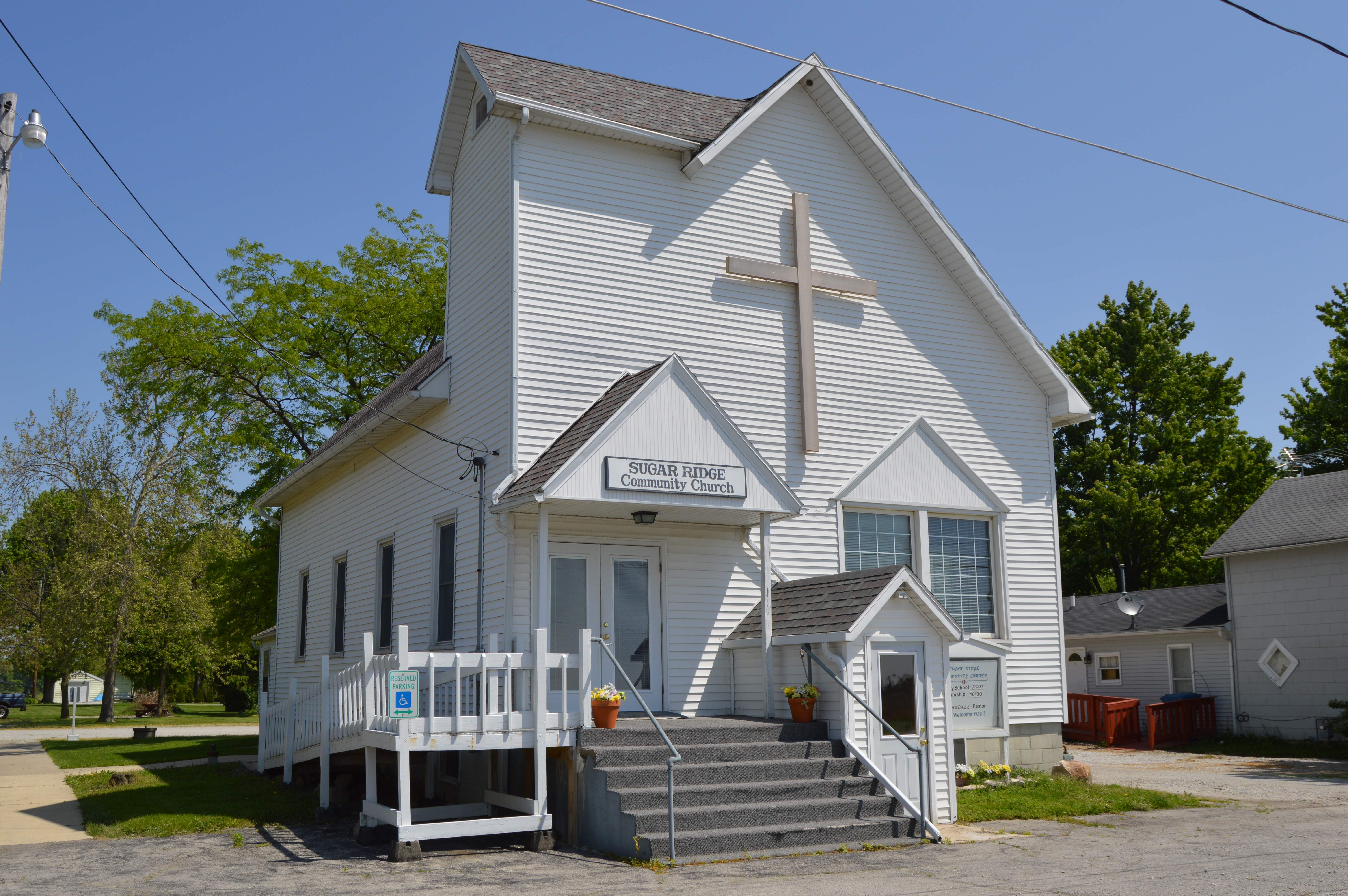 Front and western side of the Sugar Ridge Community Church, located on Sugar Ridge Road at Sugar Ridge in Center Township, Wood County, Ohio, United States.